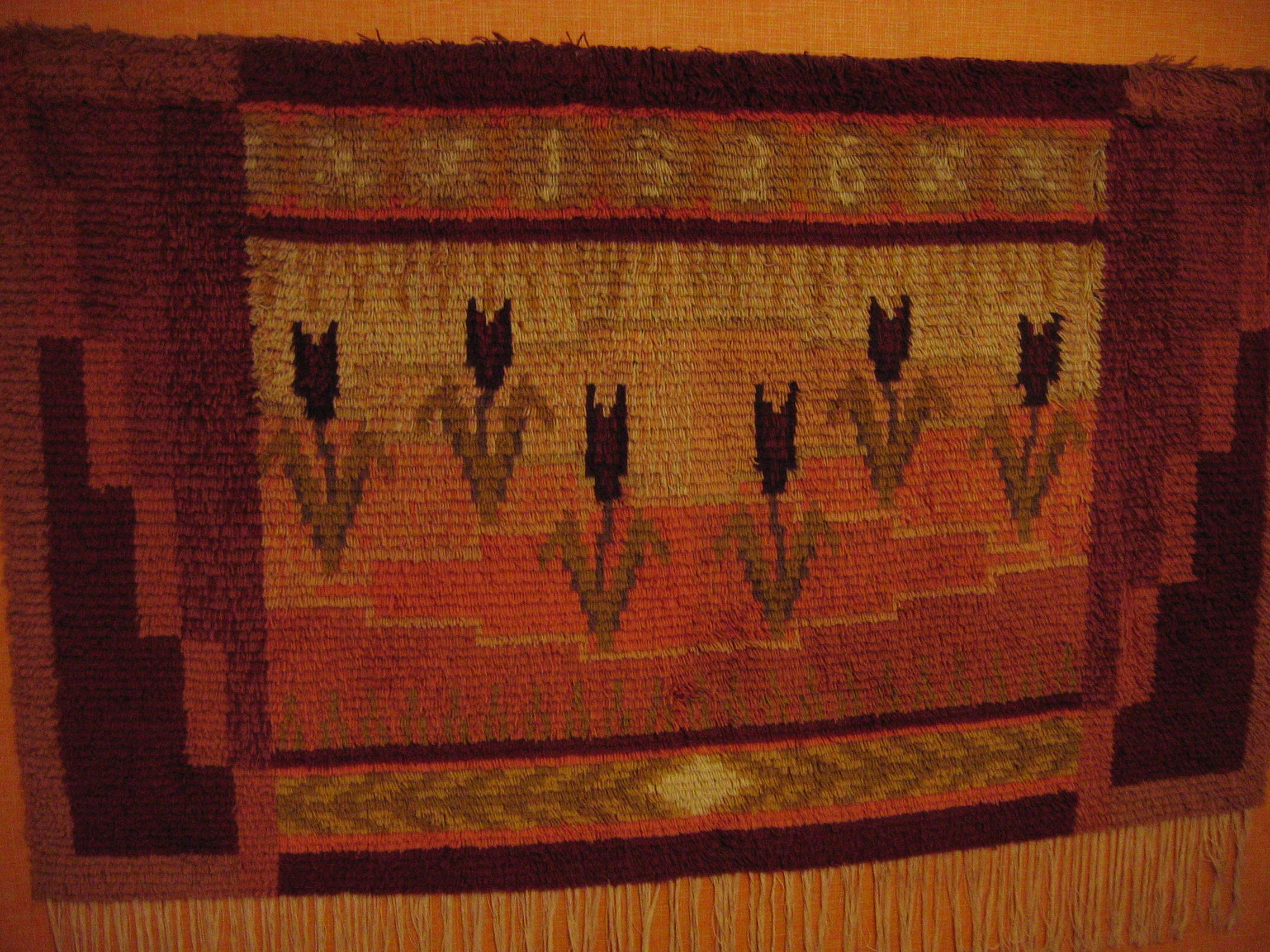 Old Finnish hand-made ryijy from the year 1936.